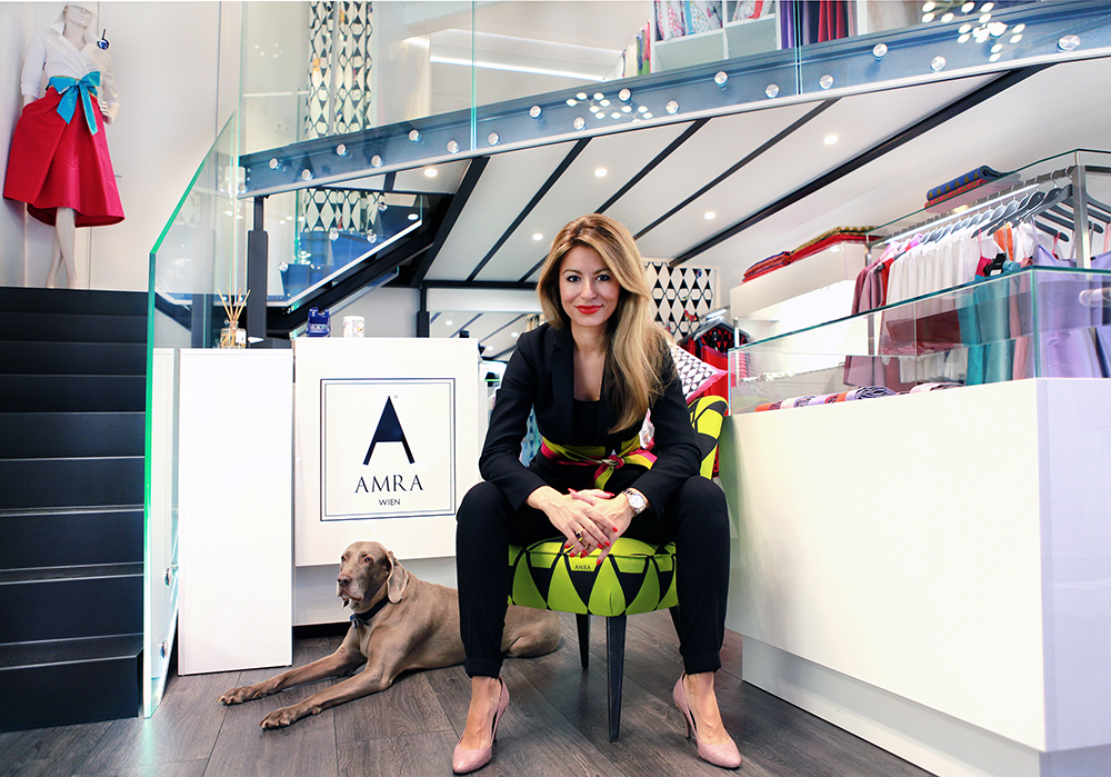 Amra Bergman @ AMRA WIEN Store Stephansplatz Vienna